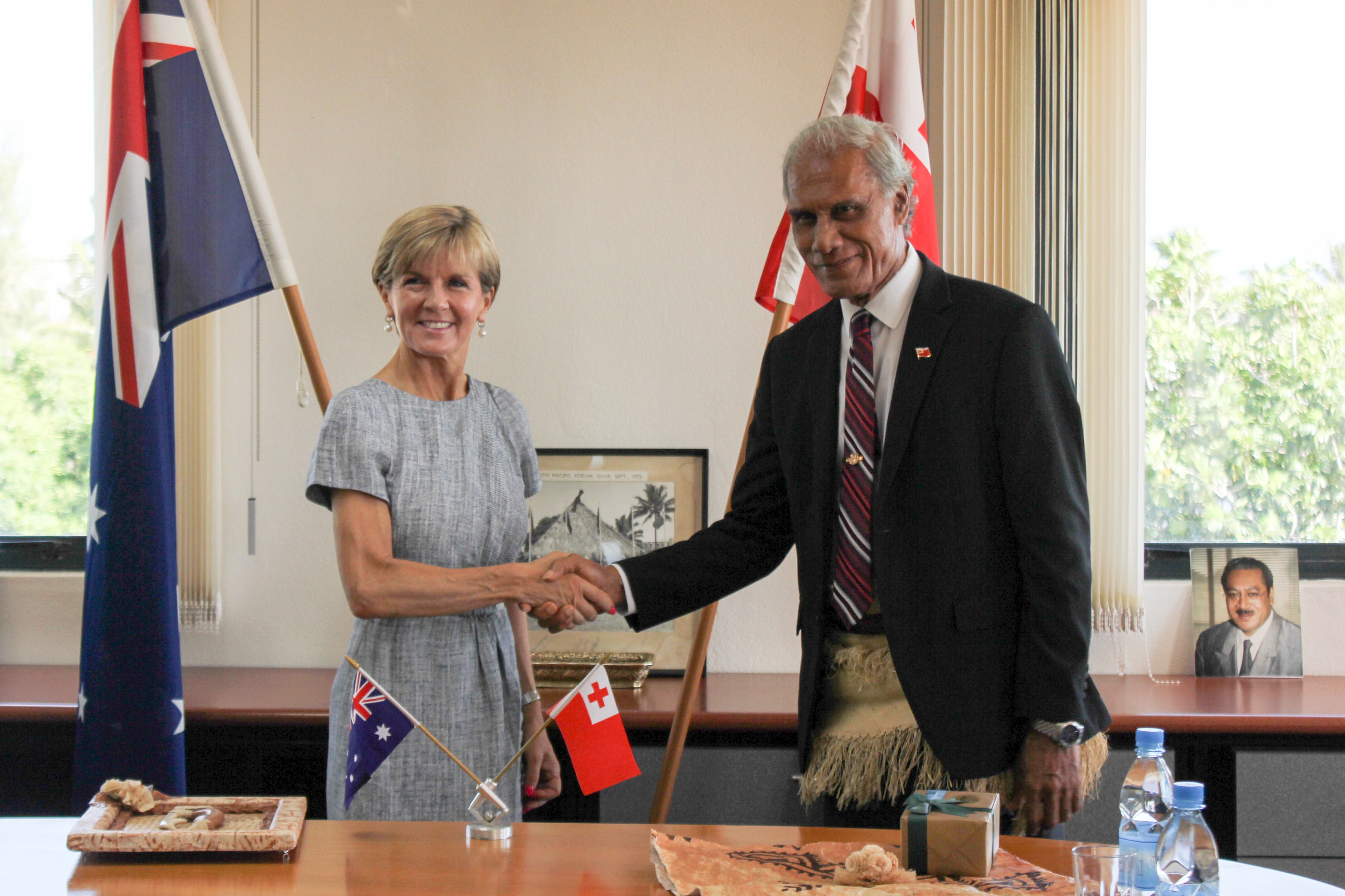 Foreign Minister Julie Bishop meets with Tonga's Prime Minister Akilisi Pohiva to discuss the longstanding relationship in regional security and development between their two countries.